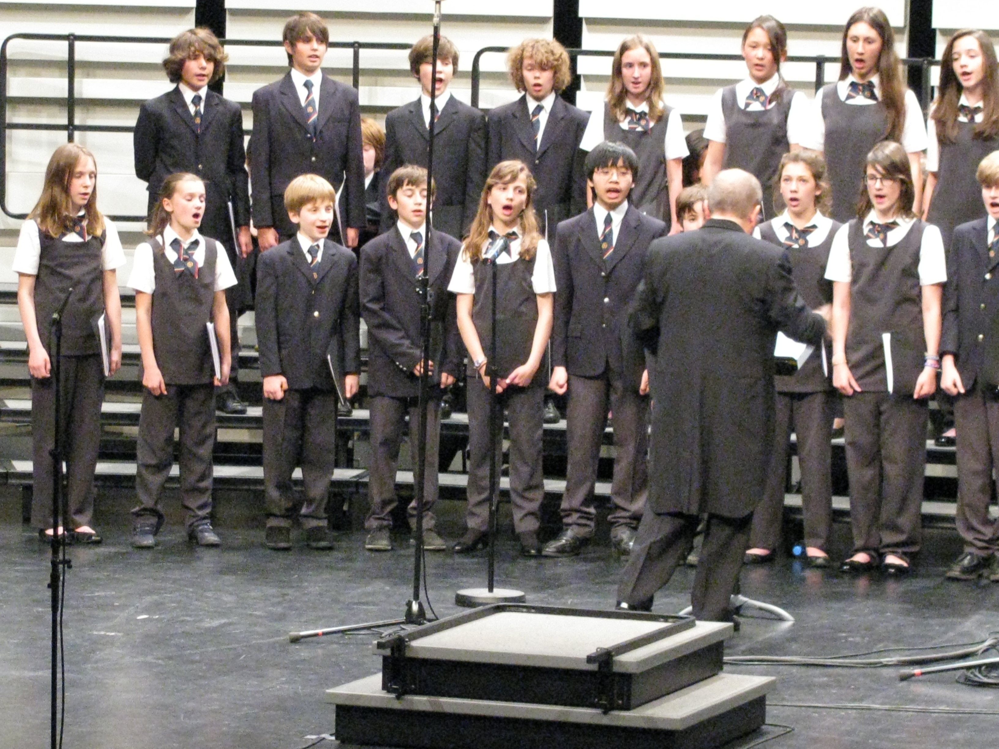 Concert in the Salle Ravel